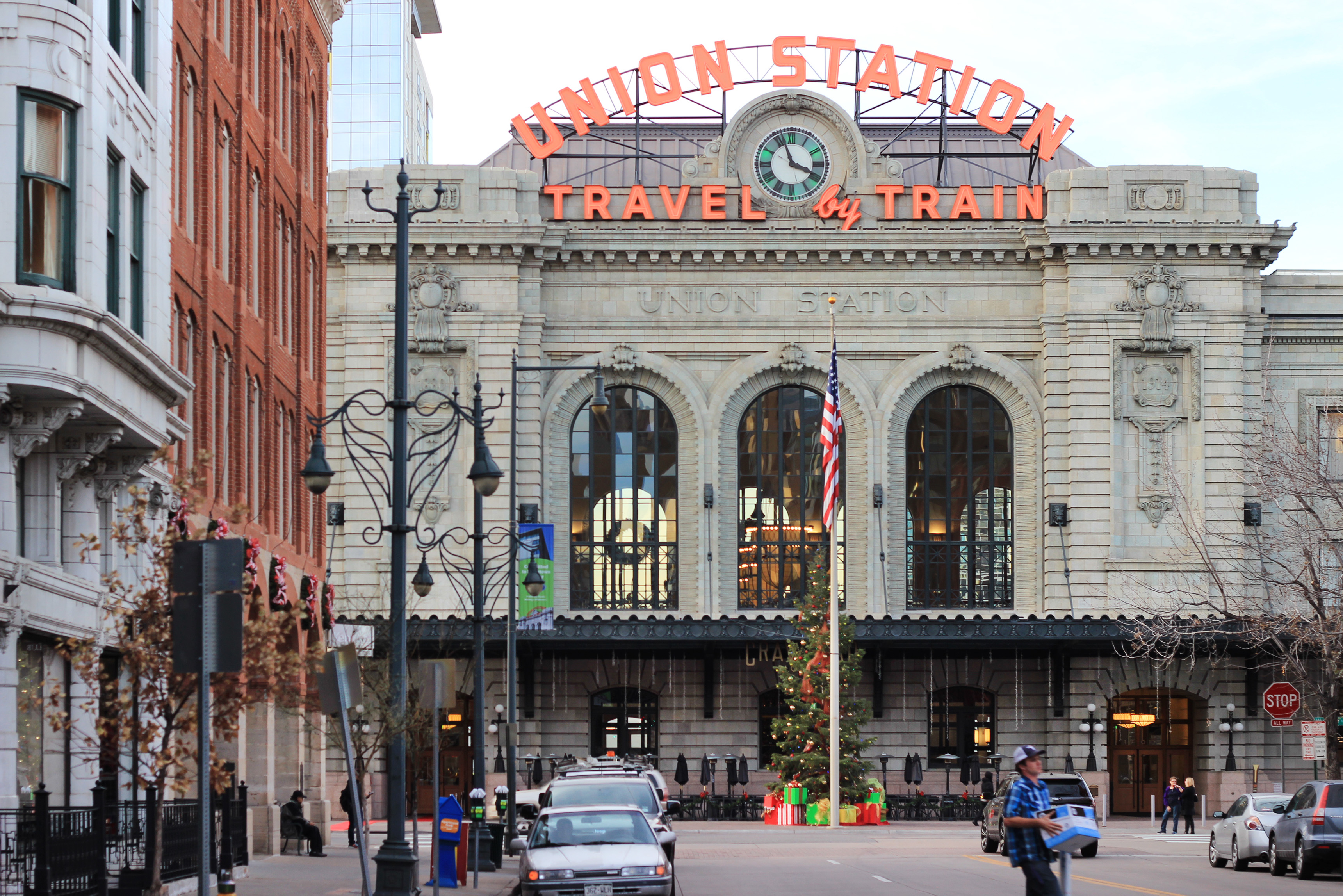 Looking down 17th St. towards the main facade of Union Station, decorated for the holidays.